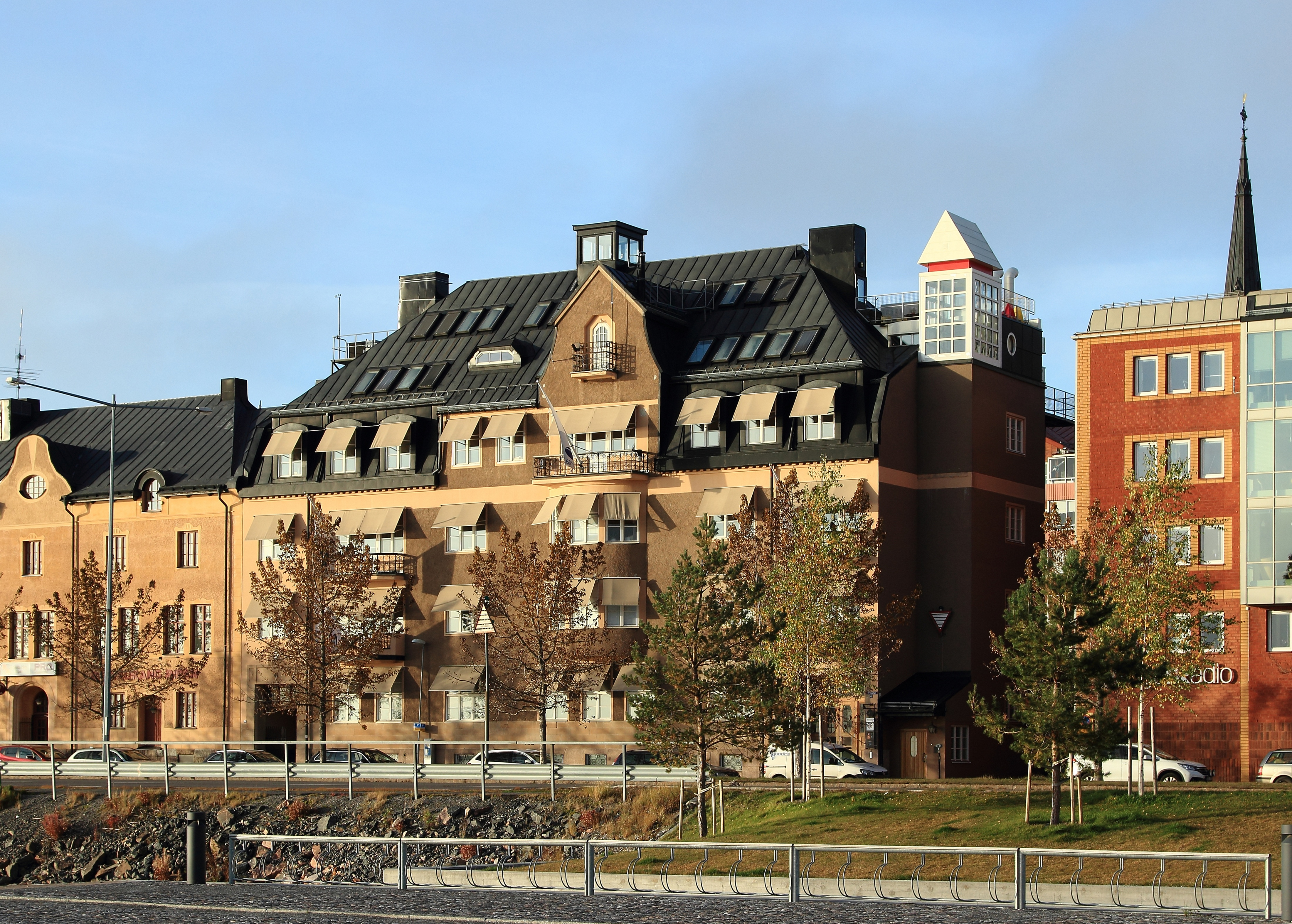 A building on the Varvsgatan street in Luleå.